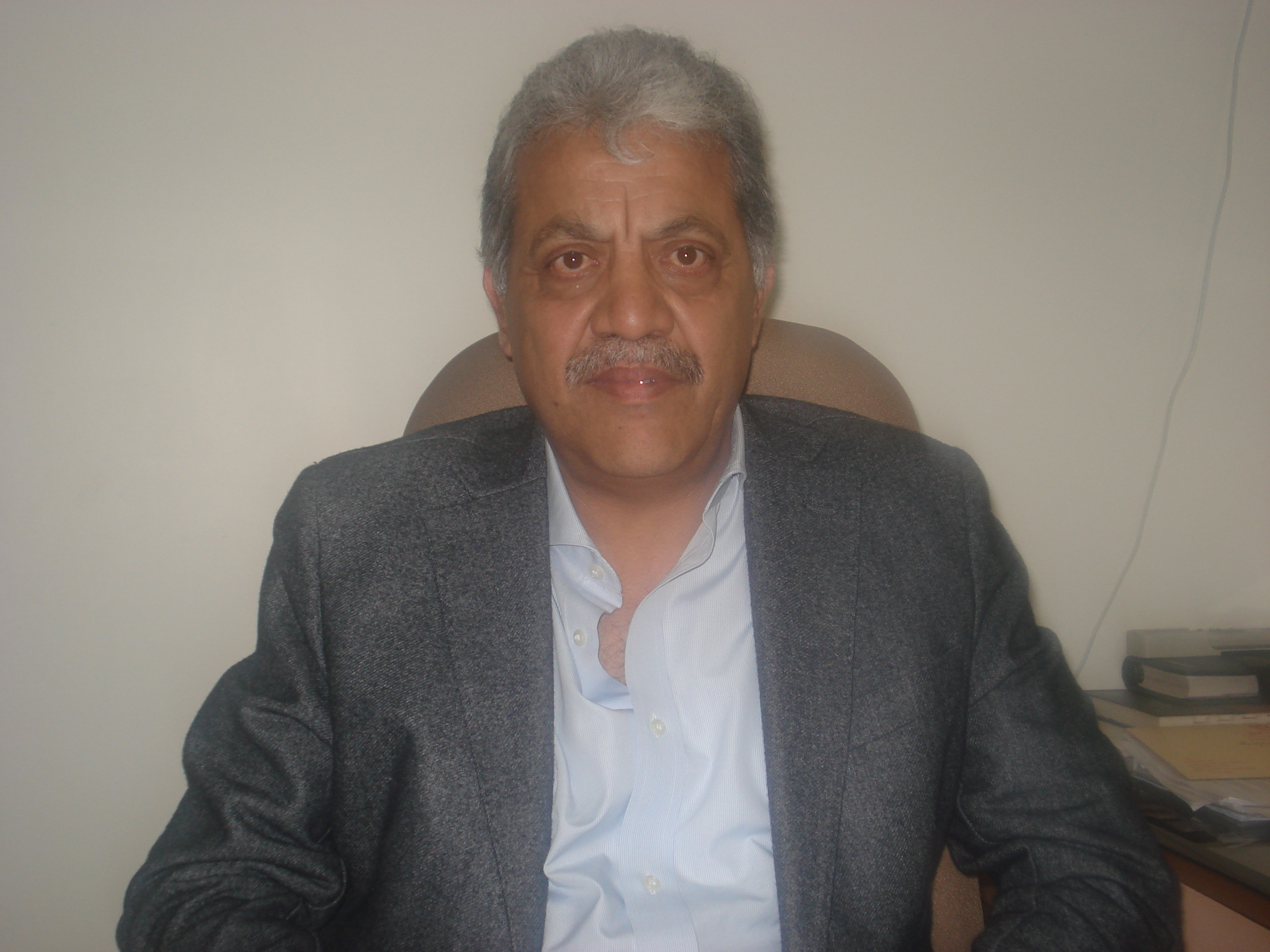 Photo of Bikky Khosla clicked using Sony DSC W-50 Digital Camera in his office.